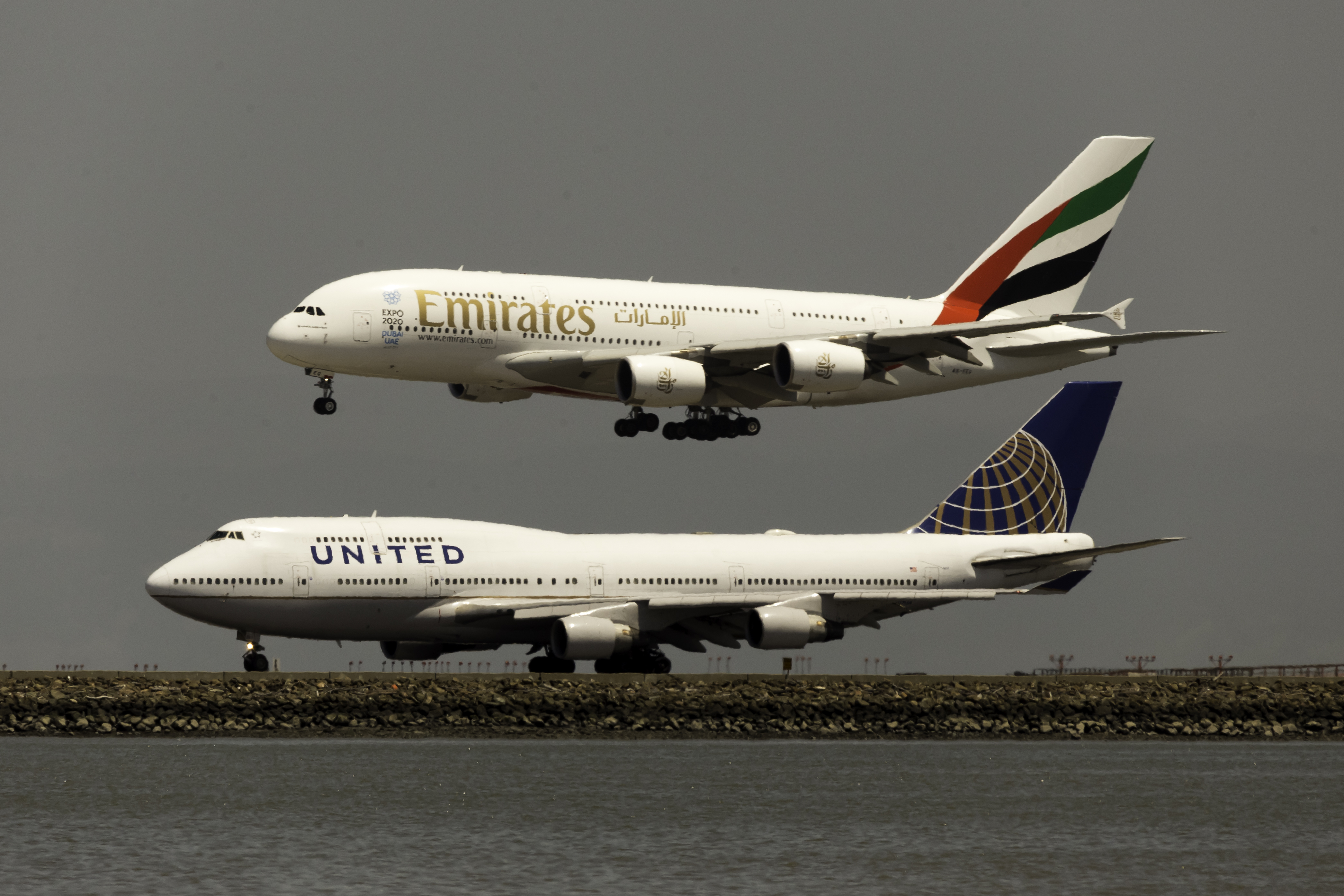 Emirates Airbus A380-800 landing on 28L runway at SFO, with United Boeing 747-400 Taxiing in the foreground.